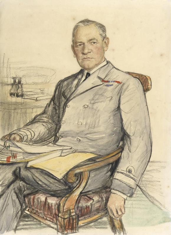 Rear-admiral Hugh Henry Darby Tothill, Cb - 1918 image: a three quarter length portrait of Rear Admiral Hugh Tothill in uniform, sitting cross-legged in a chair, with papers on his knees and a table behind.